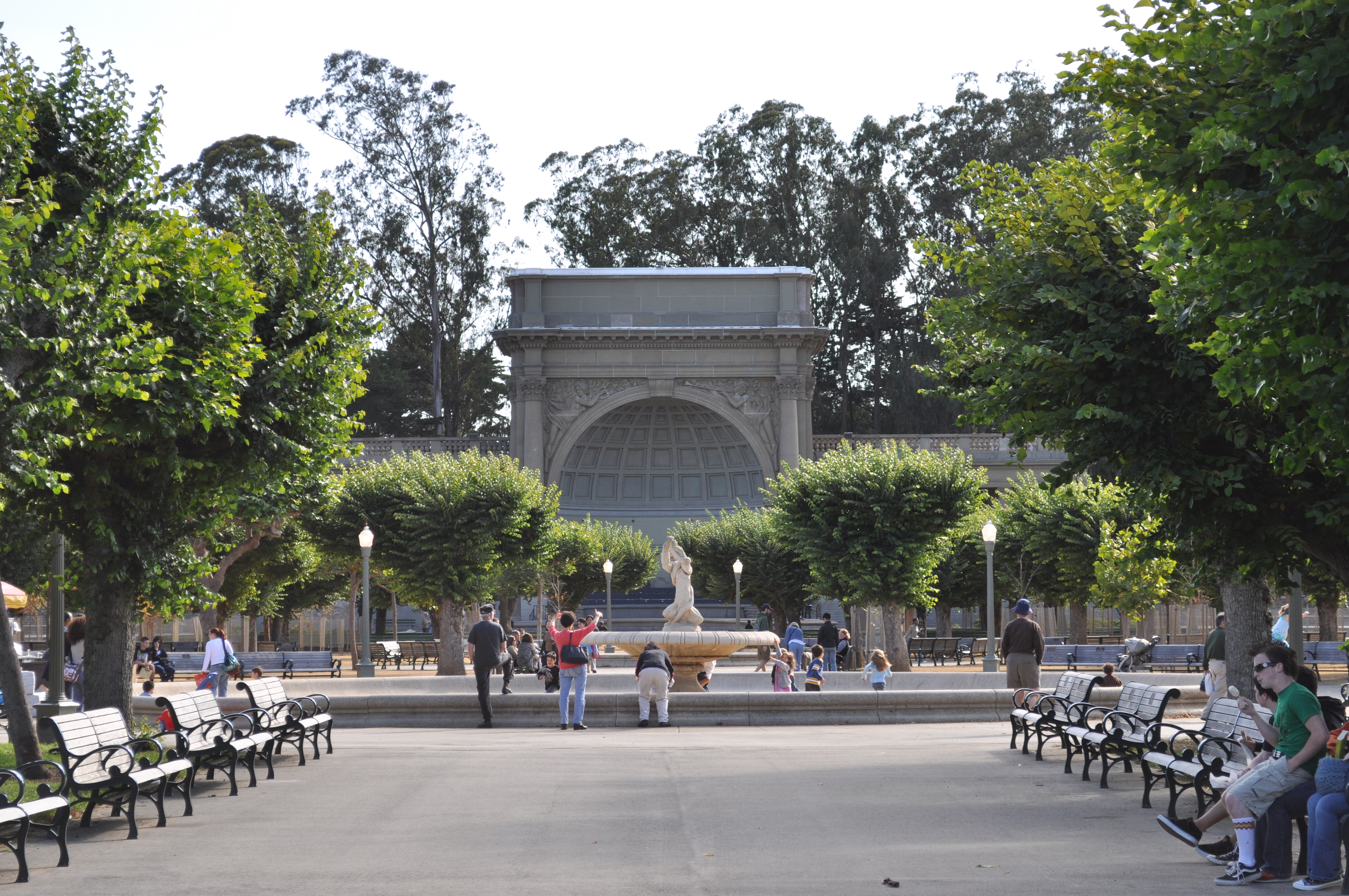 Spreckels Temple of Music ("the bandshell"), Music Concourse, Golden Gate Park, San Francisco, California, USA.